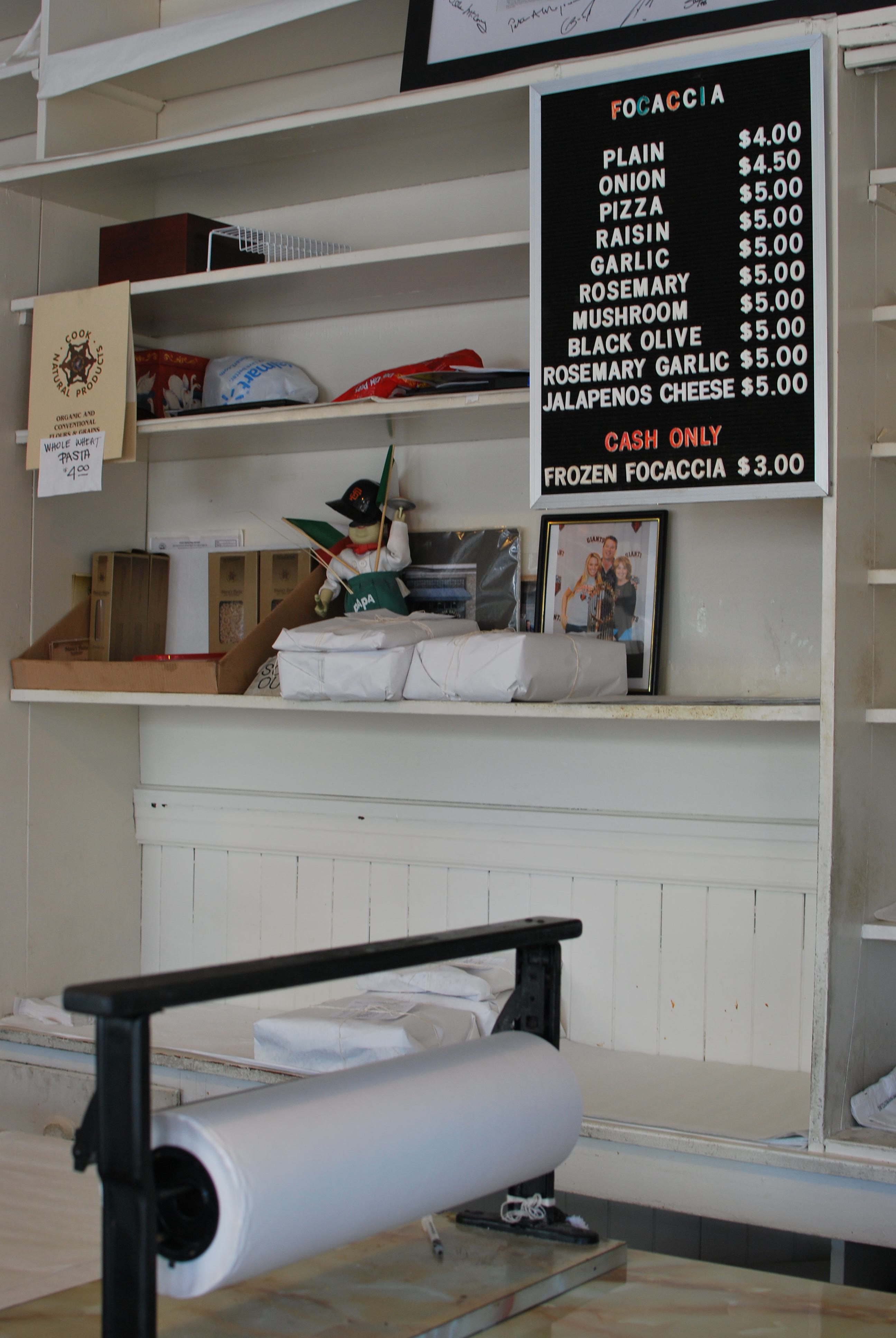 San Francisco's Liguria Bakery (1700 Stockton Street, San Francisco), which sells only foccacia